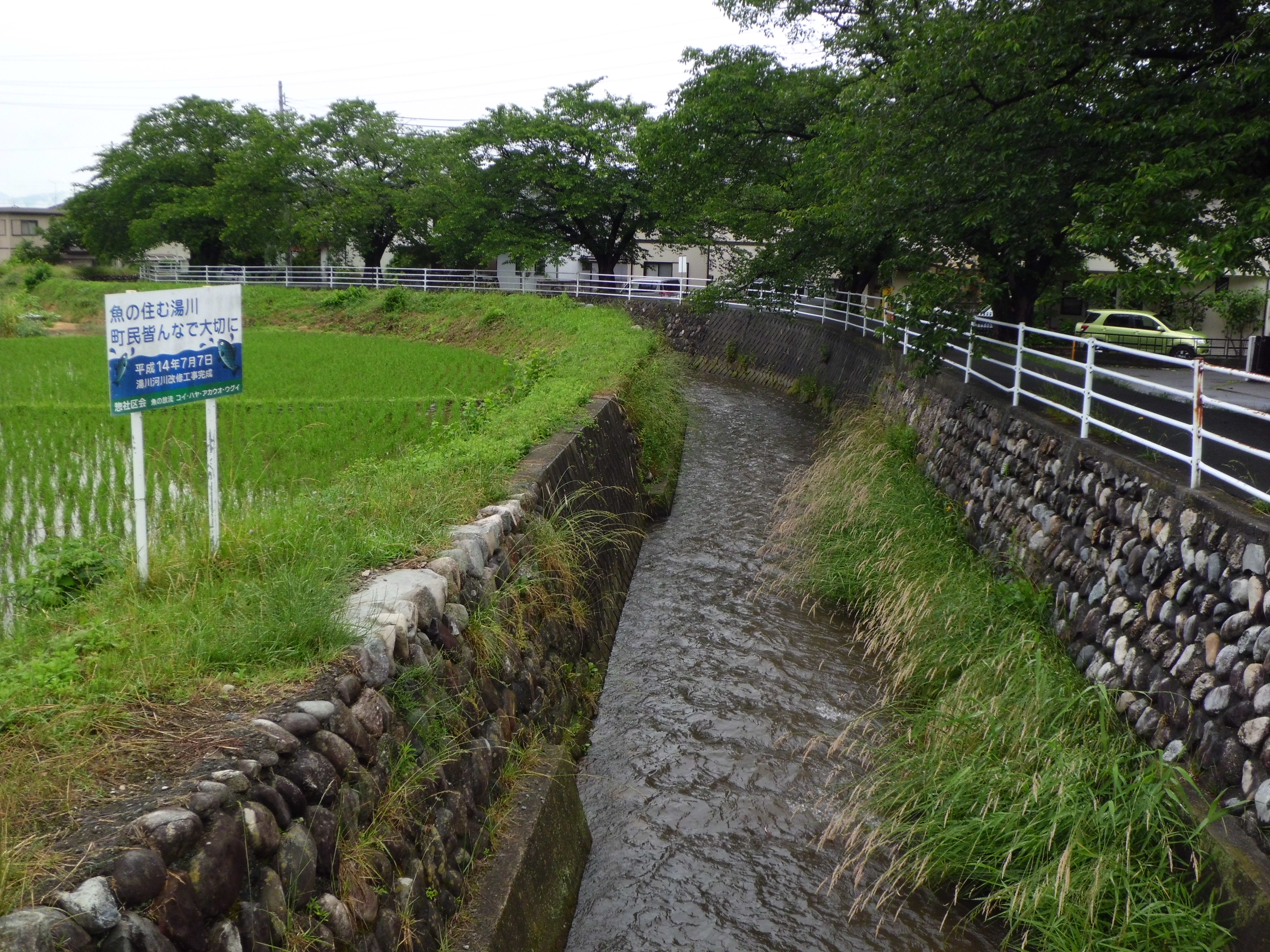 Yugawa River of Soza, Matsumoto city, Nagano prefecture, Japan.